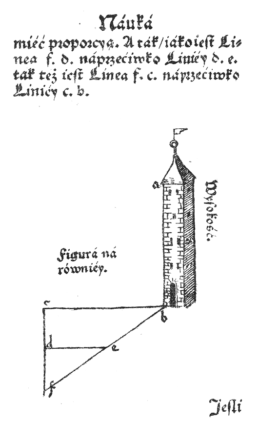 Stanisław Grzepski, "Geometria To iest Miernicka Náuká : po polsku krótko nápisána z Greckich y z Łáćińskich Kśiąg. Teraz nowo wydaná" Kraków : Łázarz Andrysowic wybijał, 1566